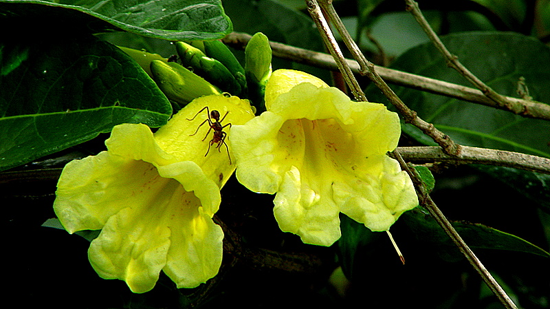 Adenocalymma comosum at Entre Rios (Bahia, Brazil)